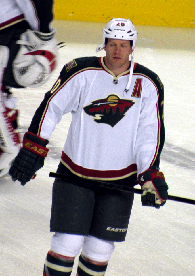 Minnesota Wild defenceman Ryan Suter prior to a National Hockey League game against the Calgary Flames.